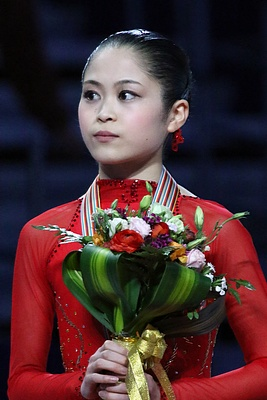 World Championships 2015 – Ladies (Satoko MIYAHARA JPN – Silver Medal)